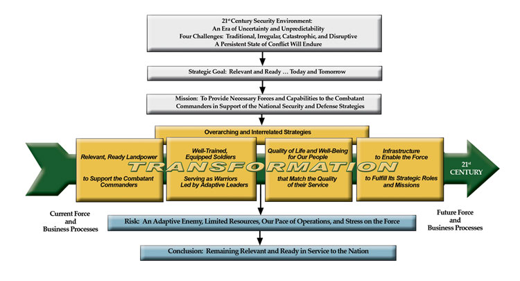 Purpose chart of US Army Transformation